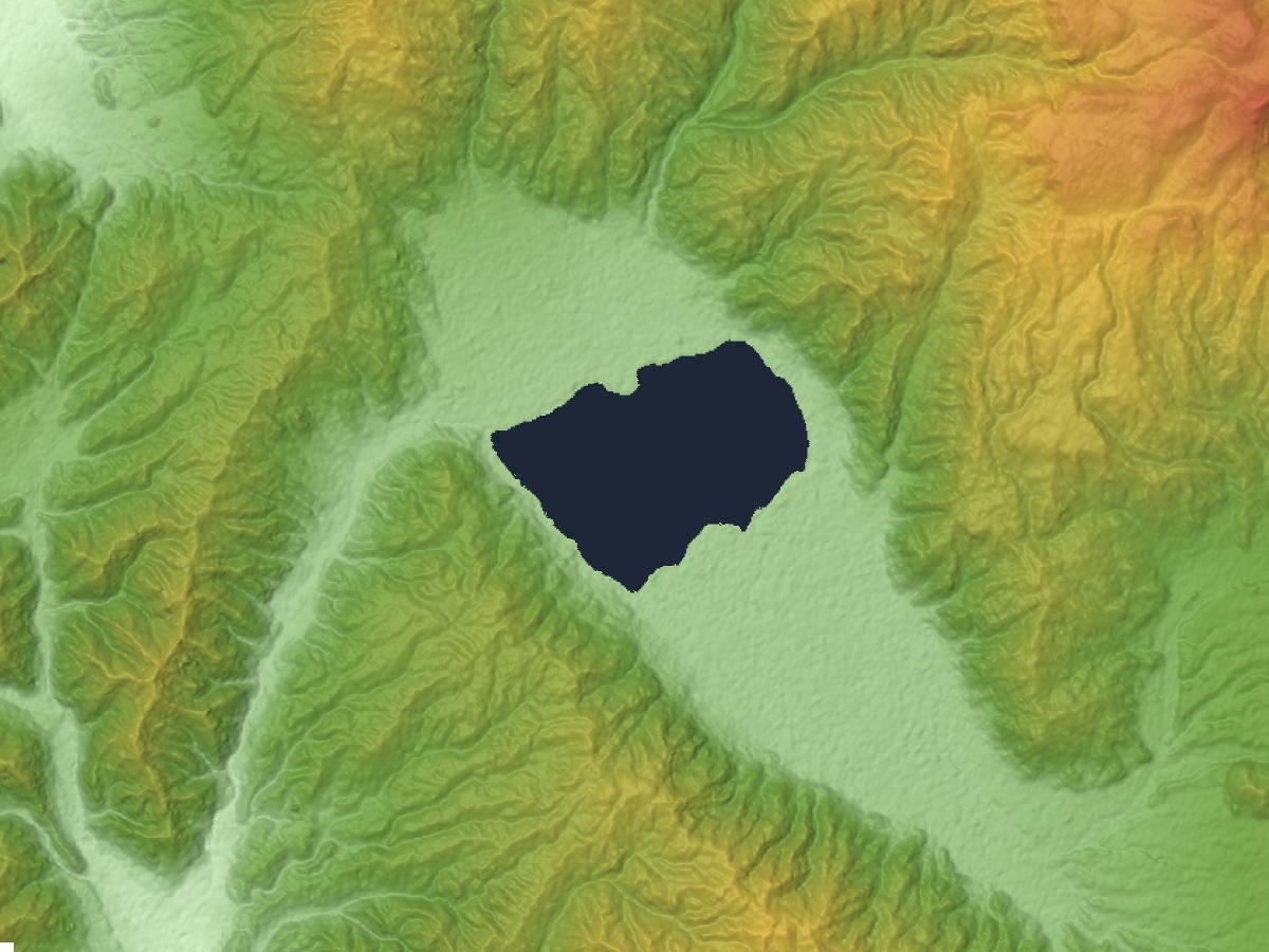 Suwa Basin and Lake Suwa in Nagano Prefecture, Honshu, Japan.